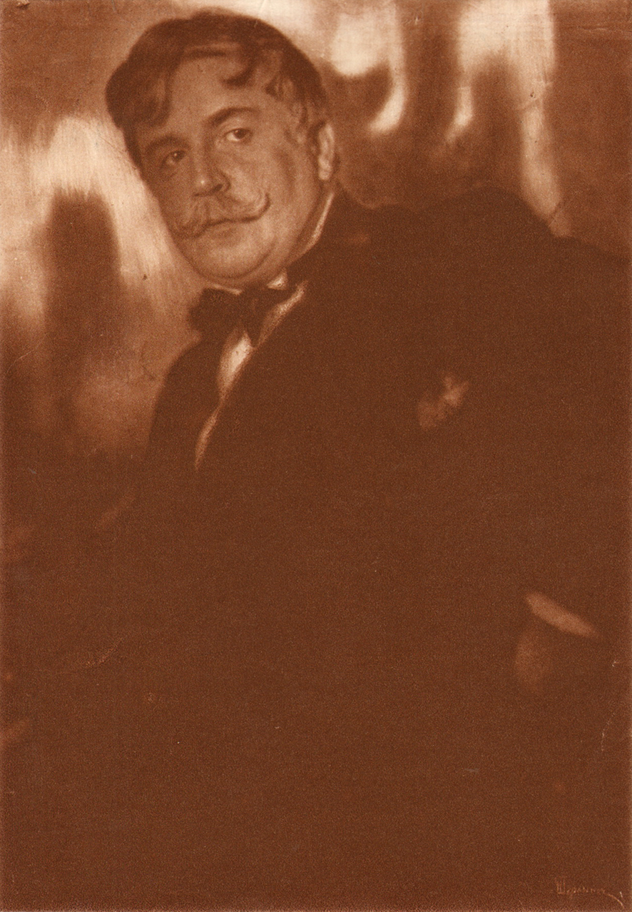 Miron Sherling Abramovich (1880-1958)/ Portrait A. Golovin/ 1916/ 22 X 15,5 cm.